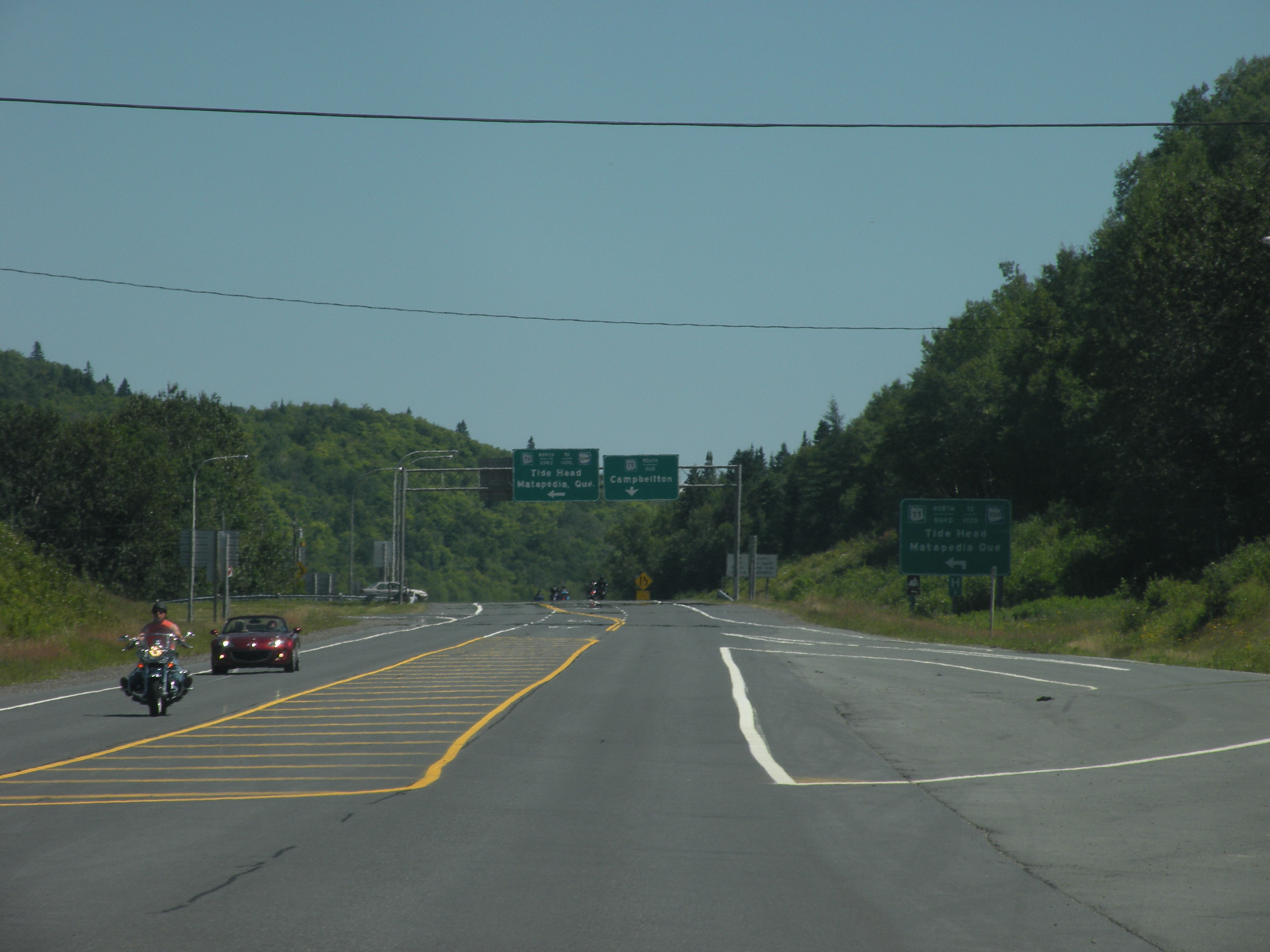 The junction of roads 11 and 17 in Glencoe, New Brunswick, Canada.